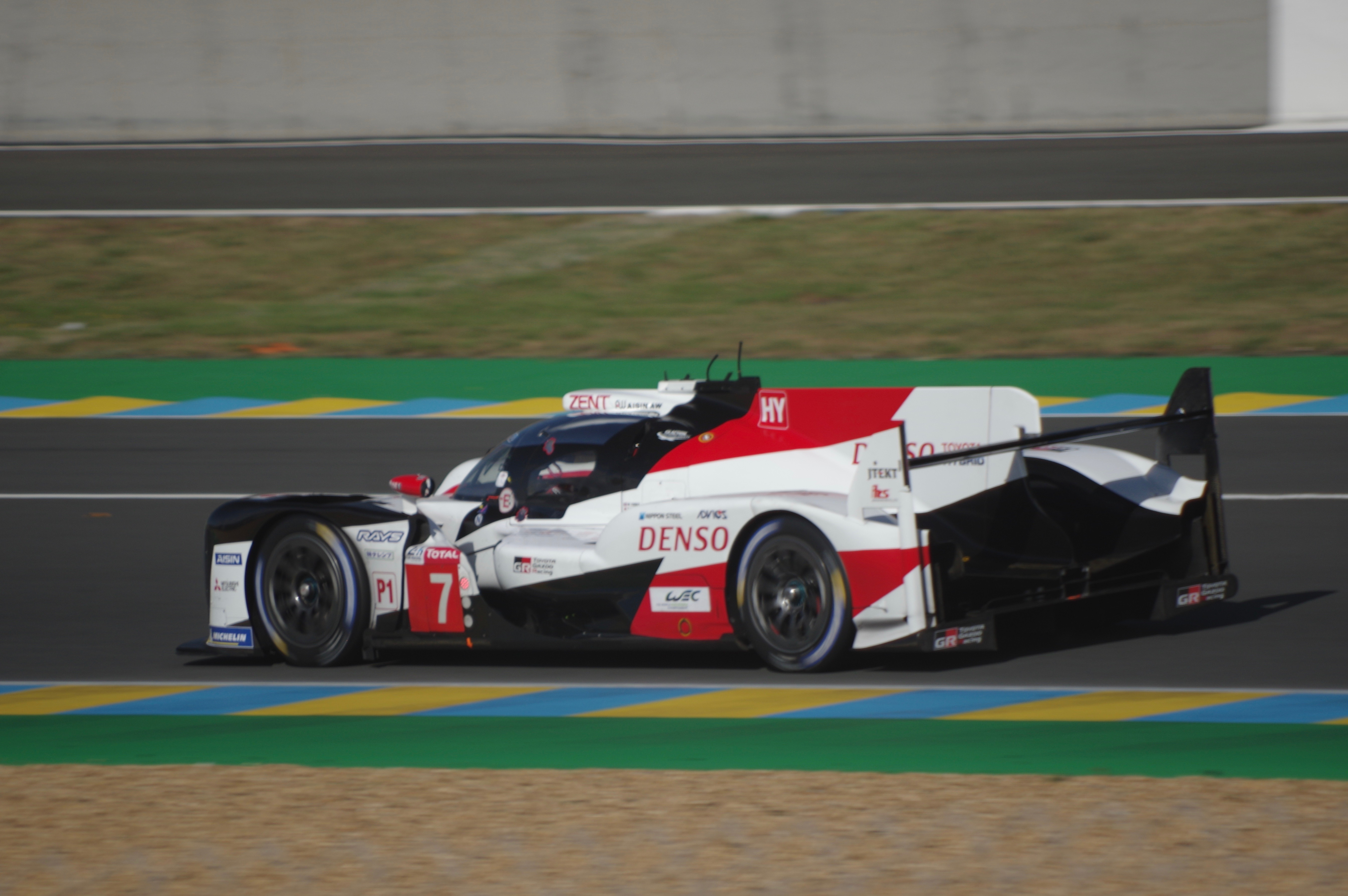 Toyota Gazoo Racing's Toyota TS050 Hybrid No. 7 driven by Mike Conway, Kamui Kobayashi and José Maria López, 2nd overall after two late punctures robbed them of victory